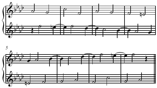 Crab canon. Created by Hyacinth (talk) 01:26, 10 November 2011 (UTC) using Sibelius 5.